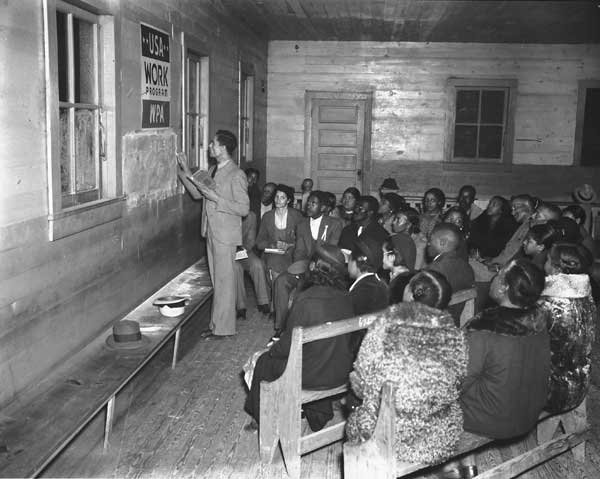 Louisiana, 1936; Works Progress Administration night school for African Americans in town of Kenner, Jefferson Parish. Original caption: "National Educational Association negro night school at Kenner. Interior."